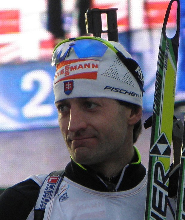 Pavol Hurajt, 21-01-2010